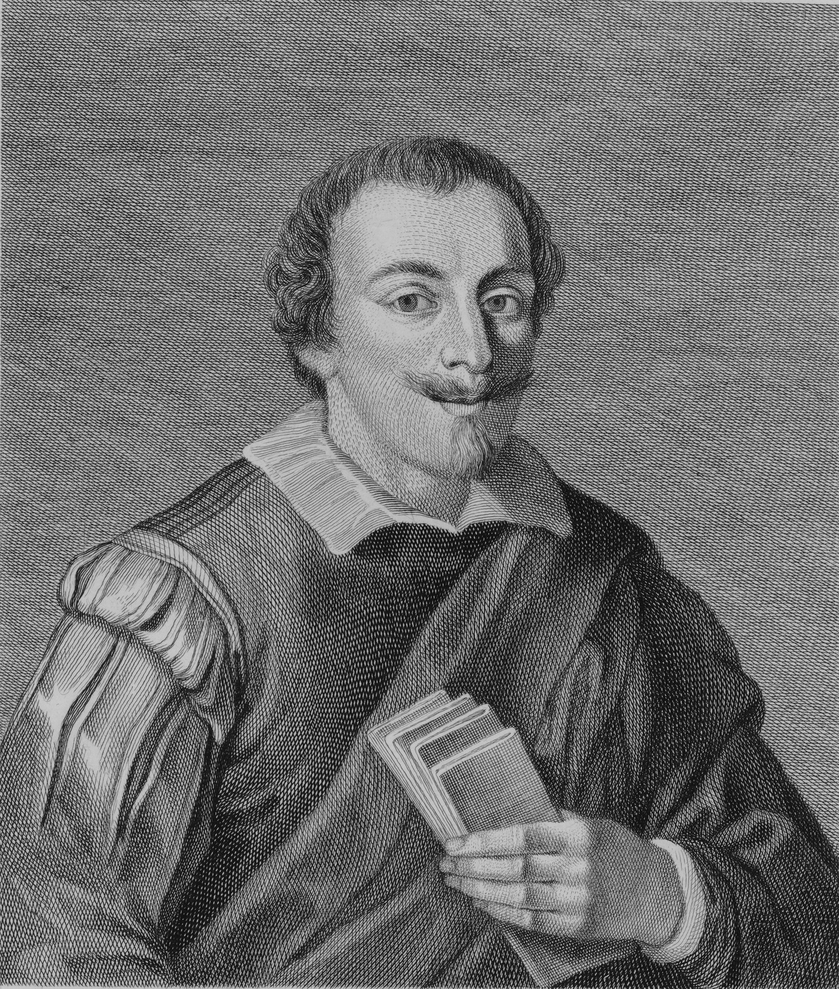 Italian musicologist Giovanni Battista Doni (ca. 1593-1647)